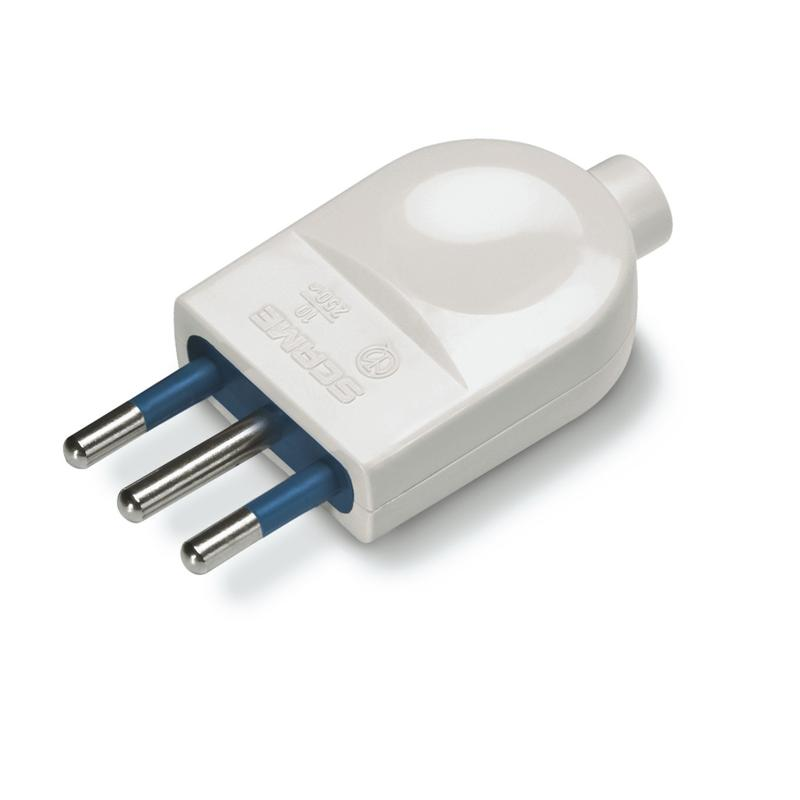 10A Plug (Italian standard CEI 23-50 S 11)